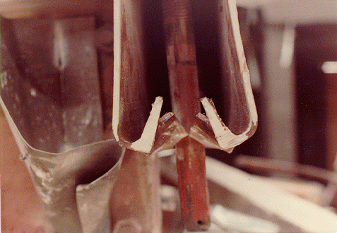 View of the 4th floor support beam, during the first day of the investigation of the Hyatt Regency walkway collapse.